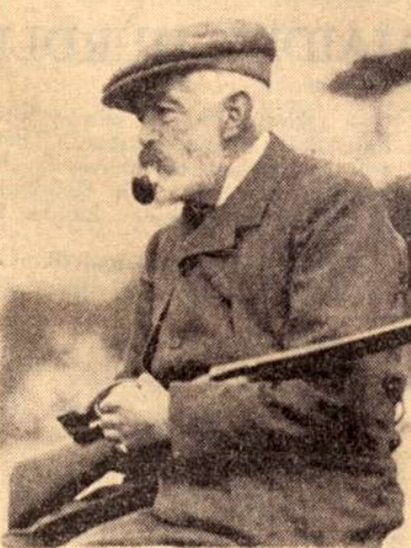 Thomas Sherwin Pearson Gregory, owner of Harlaxton Manor circa 1920